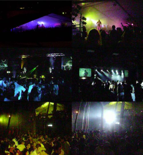 Images of stonefest 2005 in Canberra. top from the superstage, middle from the arena (UC refectory) and bottom from the 'hub'. I took the photos.